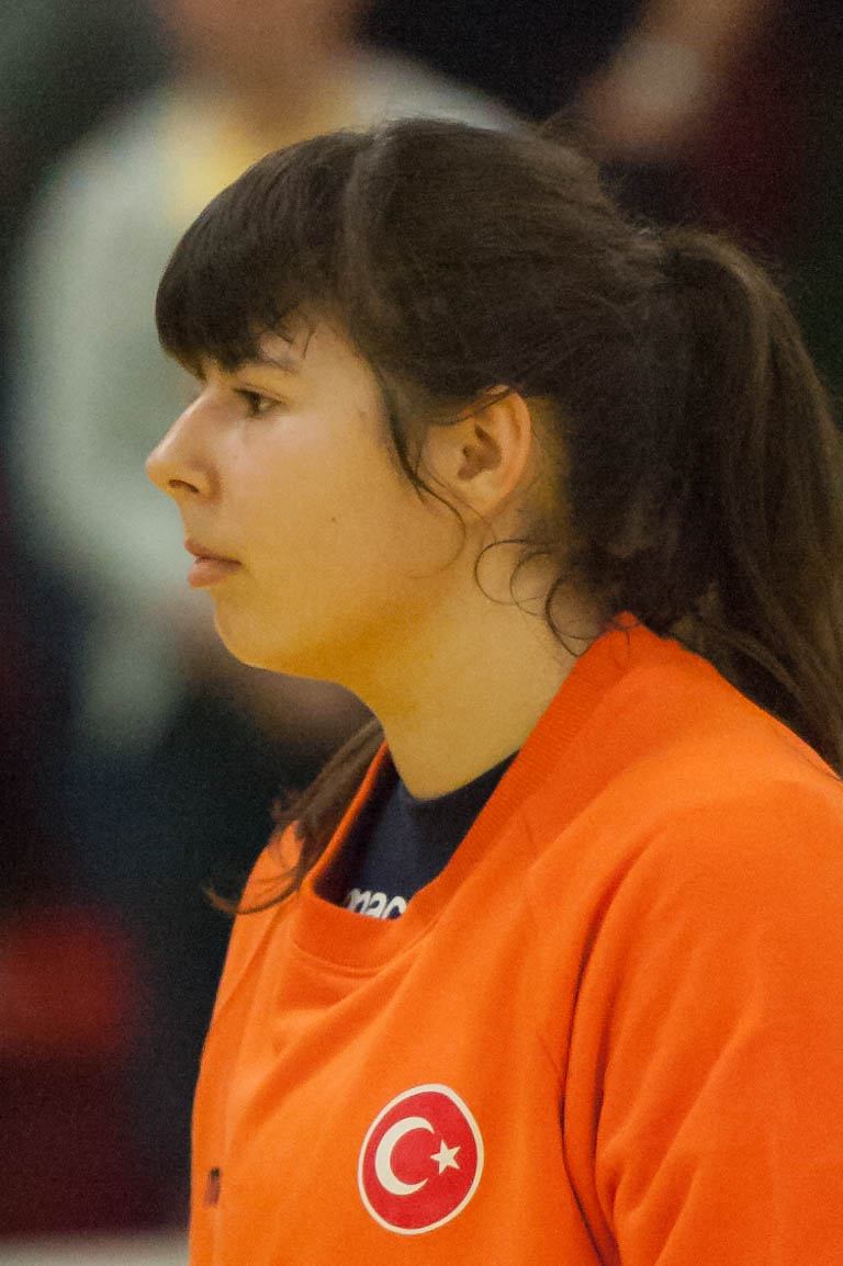 2015 World Women's Handball Championship Qualification 2014-12-06: Sara Kececi